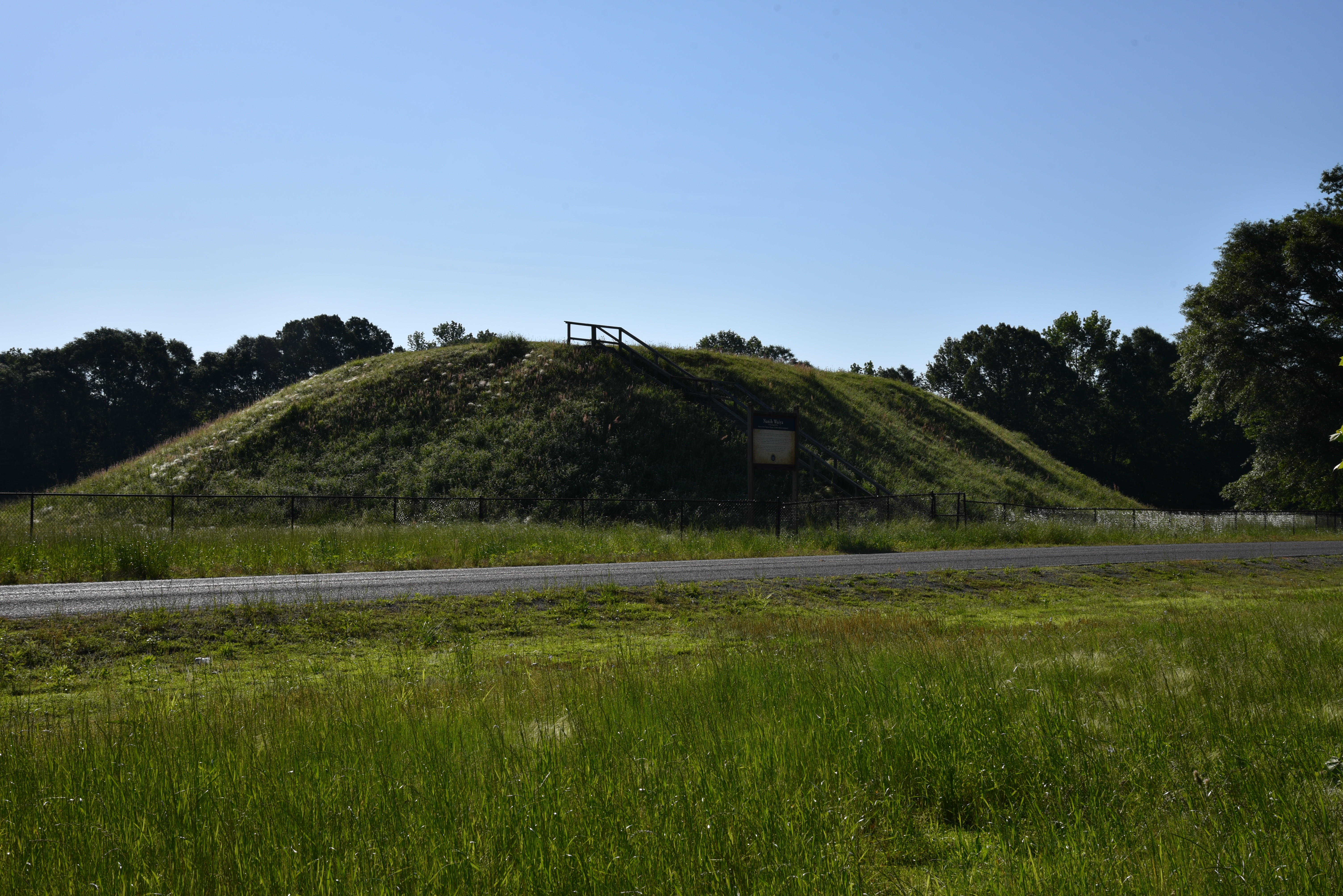 A photo of Nanih Waiya, a platform mound in Winston County, Mississippi, owned by the Mississippi Band of Choctaw Indians